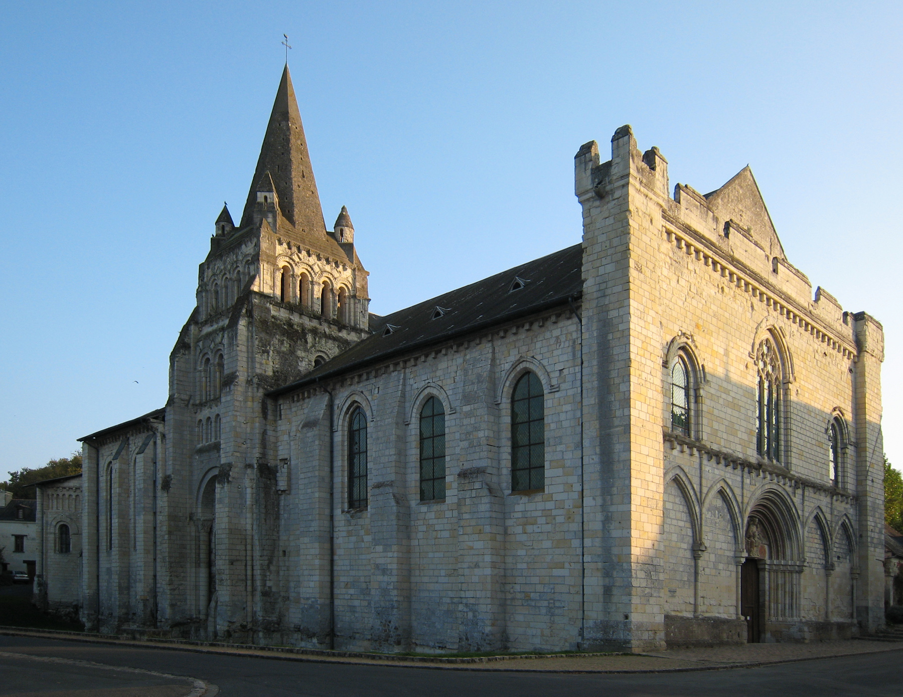 Notre Dame de Cunault - romanesque church in the village of Cunault in the Département of Maine-et-Loire/France.